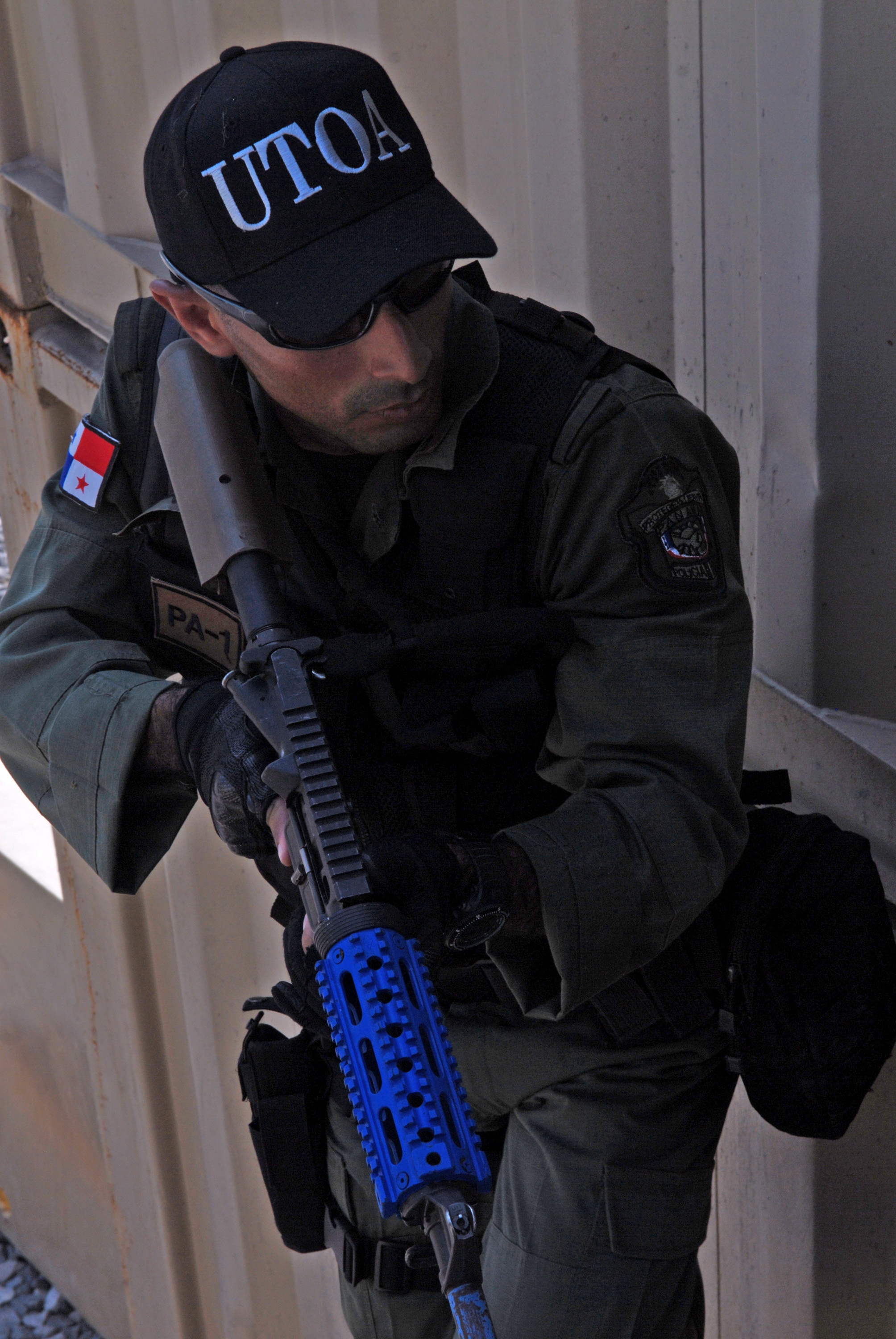 A Panamanian National Policeman looks for hostile threats during a Military Operations Urban Terrain exercise in a mock urban area as part of PANAMAX 2011. PANAMAX 2011 is an annual multinational training exercise sponsored by U.S. Southern Command focusing on the security of the Panama Canal. Involving 16 nations from the Western Hemisphere and more than 3,500 civil and military personnel, the 12-day exercise takes place off the coasts of Panama and the United States, including Fort Sam Houston, Texas, Miami, Naval Station Mayport, Fla., and Stennis, Miss., among others Aug. 15-26.